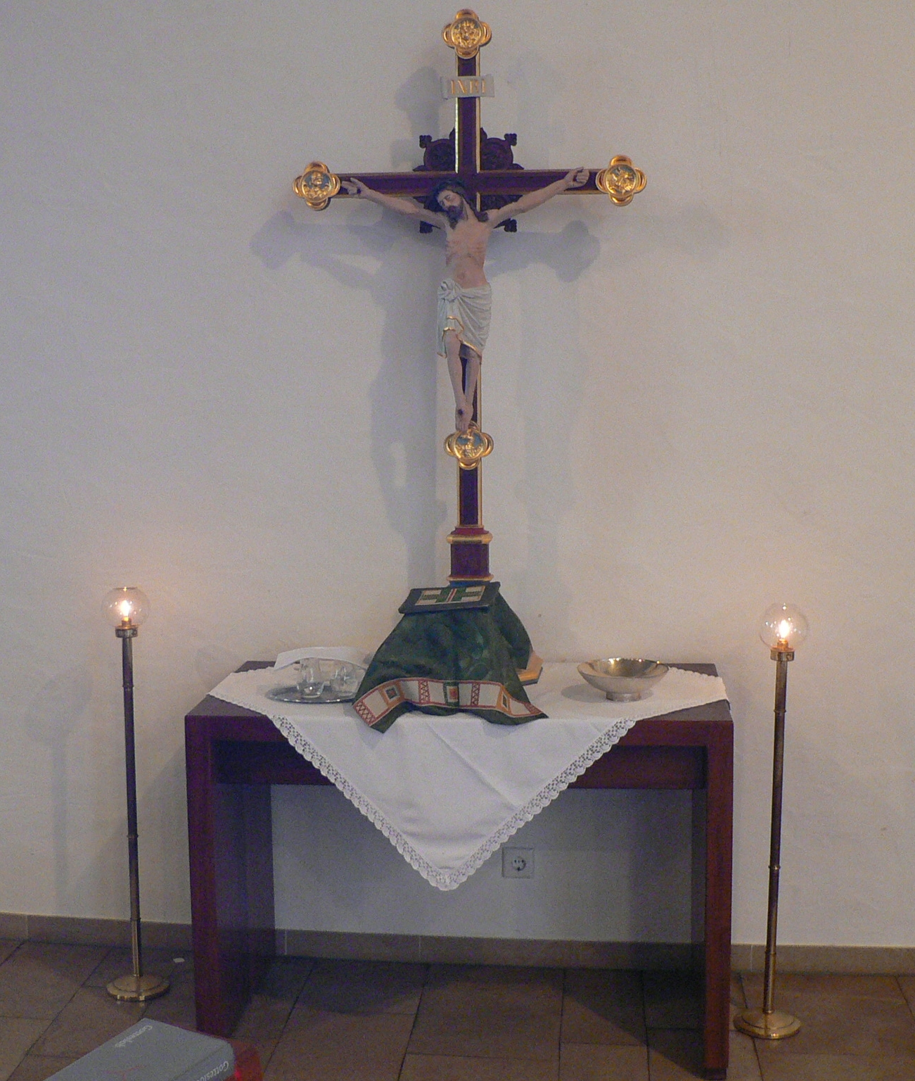 Credence table in St. Nicholas' church in Germete (Germany) with chalice (veiled), empty paten and cruets after mass.